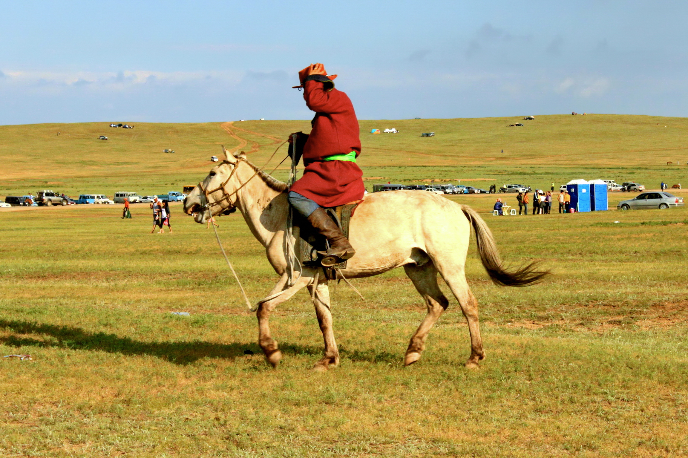 Naadam festival on the steppe, on the outskirts of Ulan Bator. Mongolia. Rider on Mongolian horse.